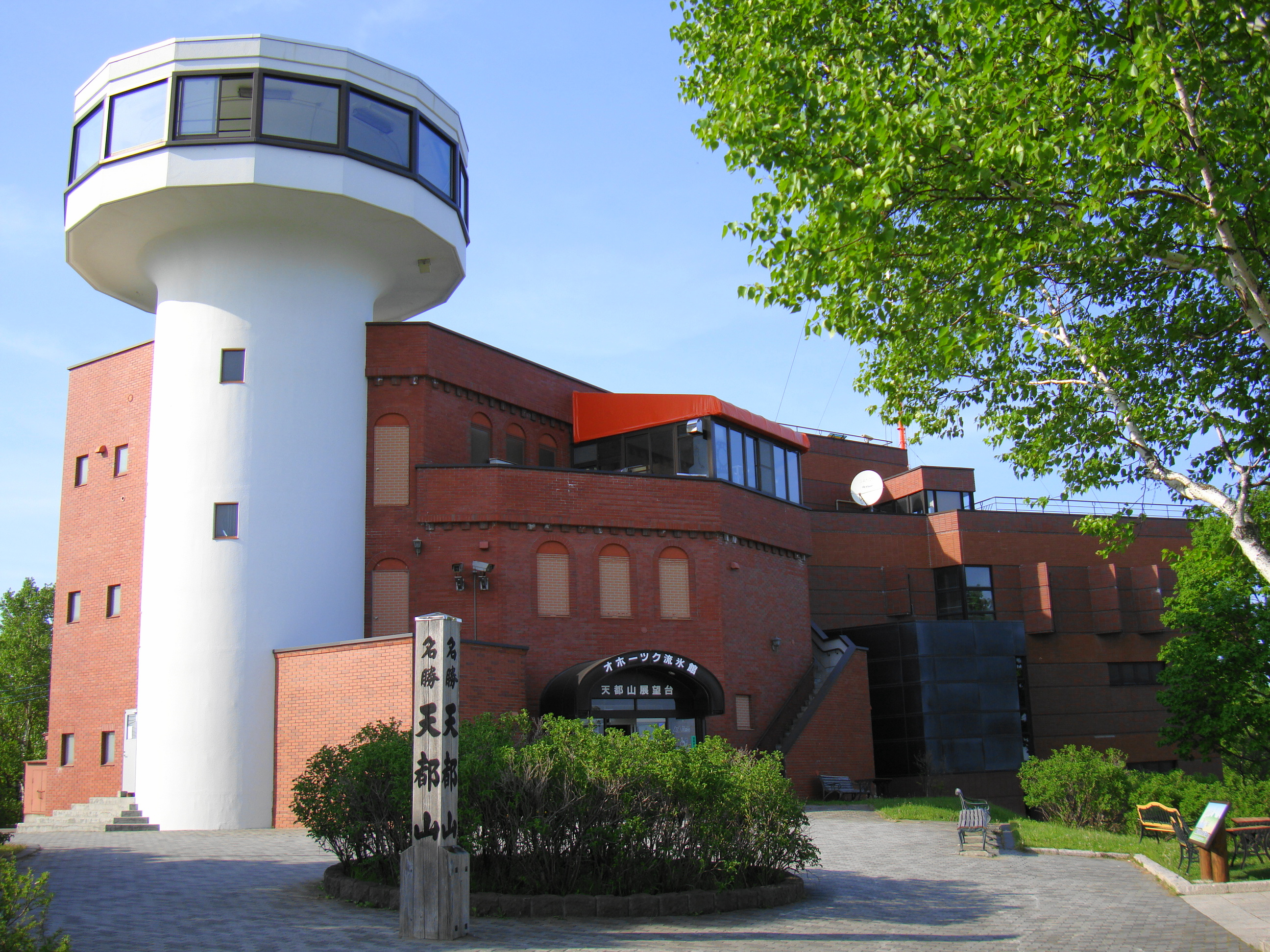 Mt.Tento observatory, Okhotsk drift ice museum